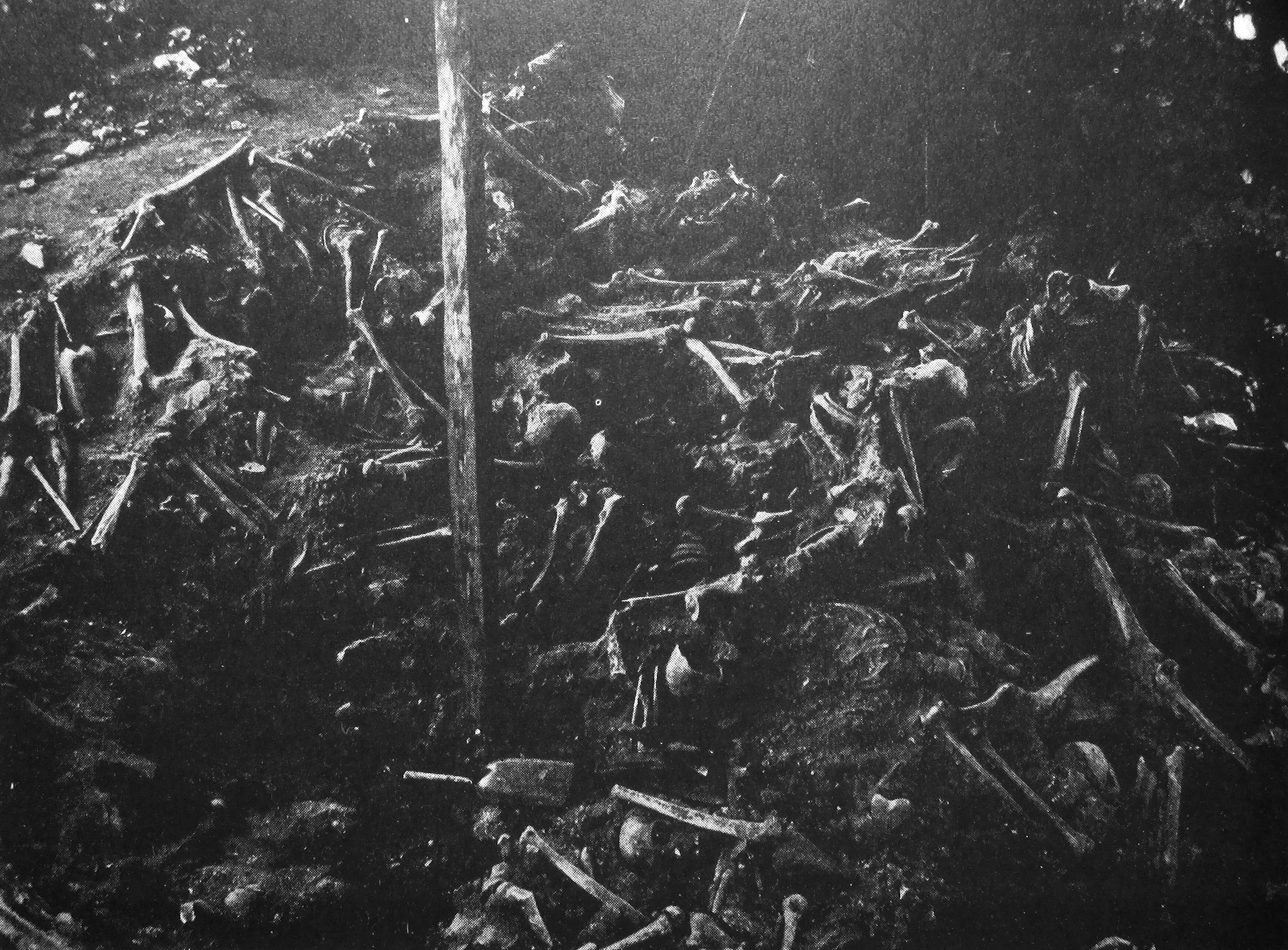 Disenterred bodies at Korsbetningen mass grave in Visby during the excavation in 1905 led by Dr Wennersten and master builder Nils Pettersson.